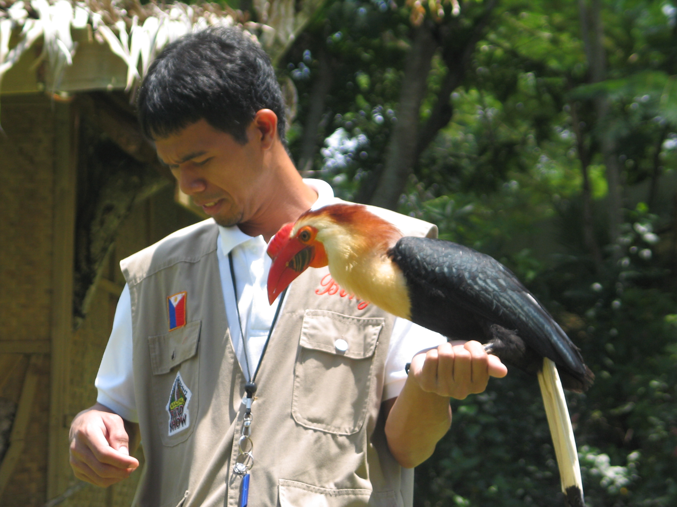 A male Mindanao Wrinkled Hornbill at the Philippine Eagle Center, Philippines. Aceros leucocephalus.